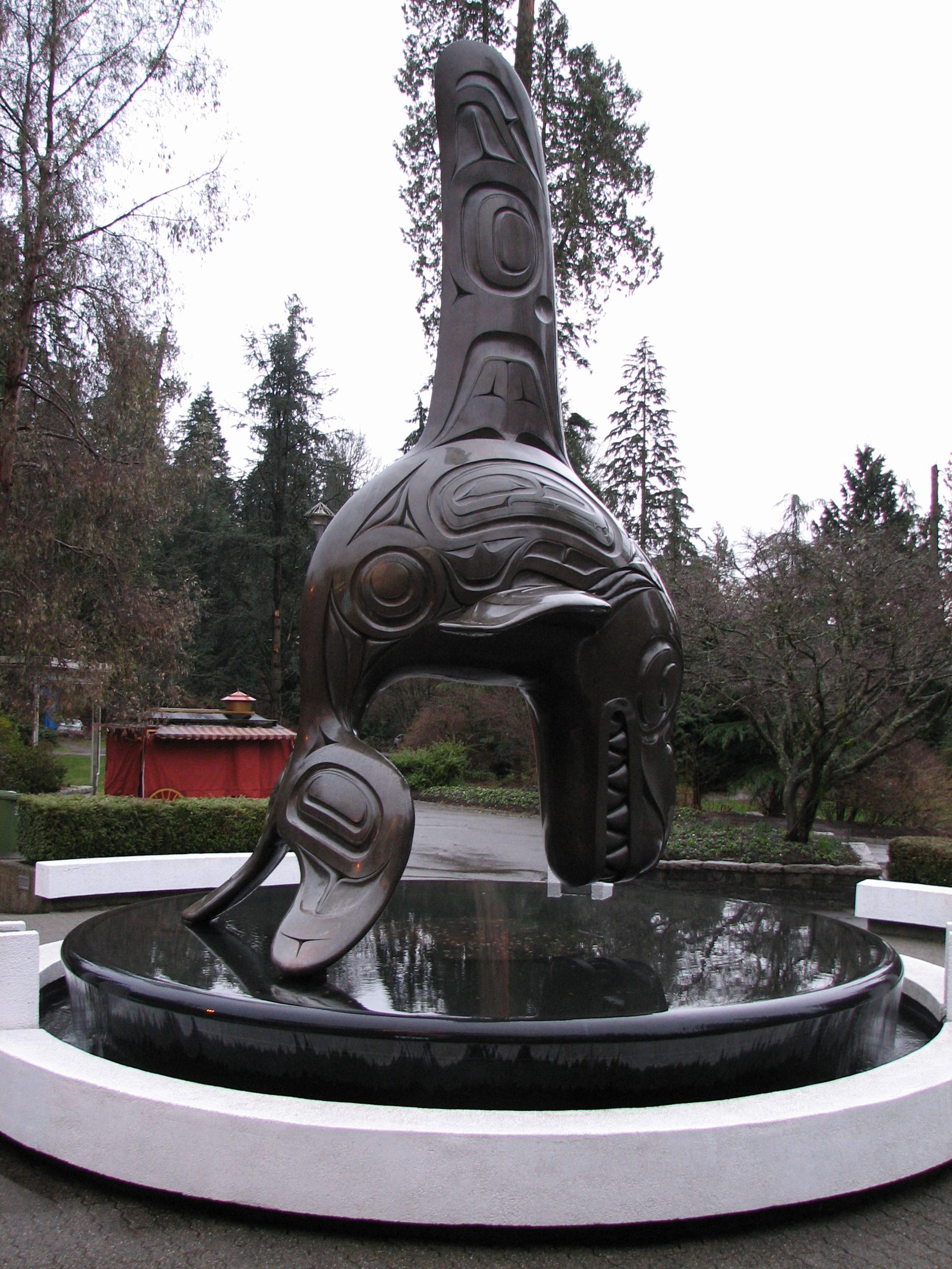 Chief of the Undersea world by Haida artist Bill Reid. I took this photo in front of the Aquarium at the Stanley Park.